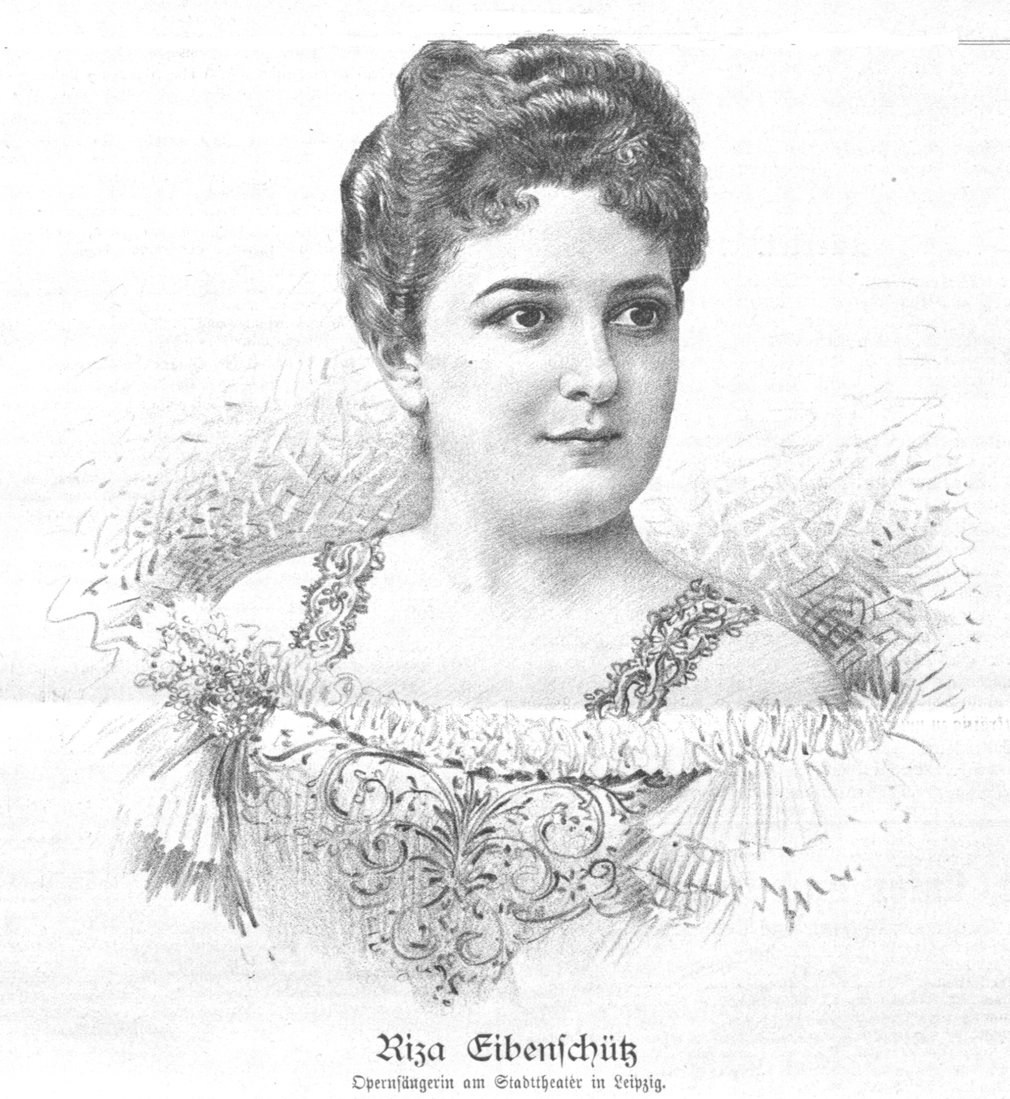 Portrait of Riza Eibenschütz (1870-1947), Austrian opera singer.